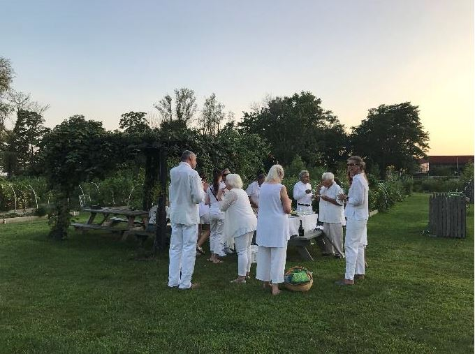 Seaside Village has had an active community life throughout its 100-year history, which continues to this day.